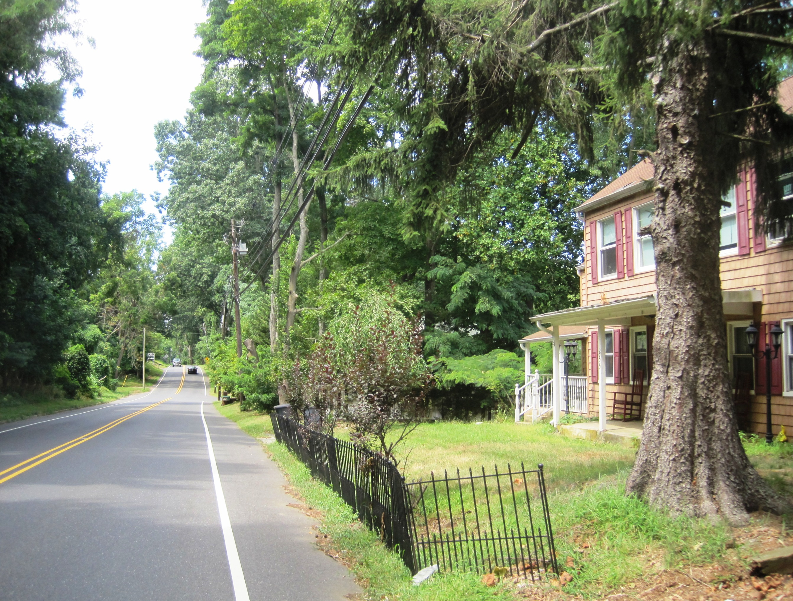 Photo of Phalanx, New Jersey, an unincorporated community within Colts Neck Township. Photo taken on westbound Phalanx Road (County Route 54).